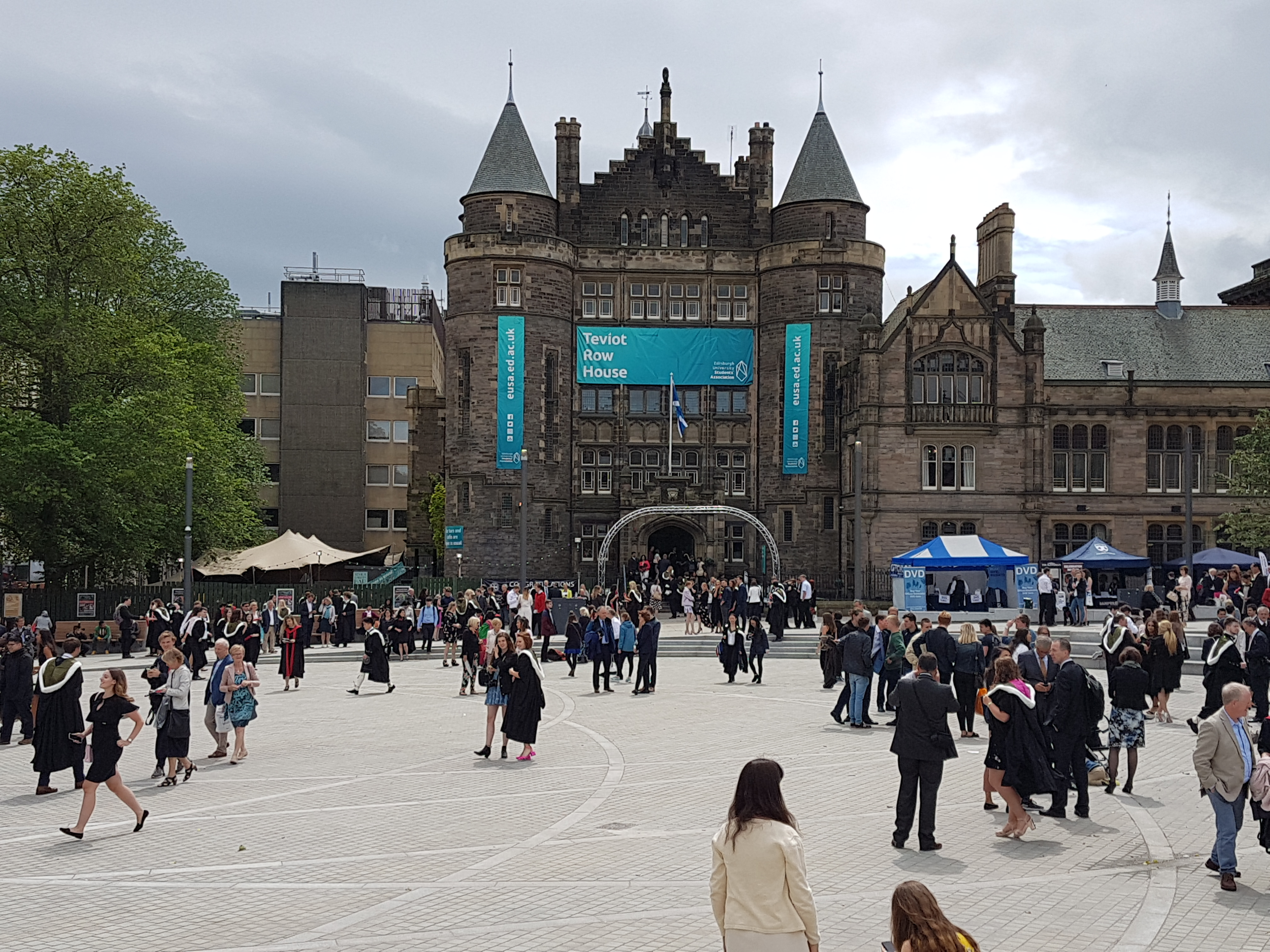 Teviot Row House, Edinburgh - Graduation day 2017